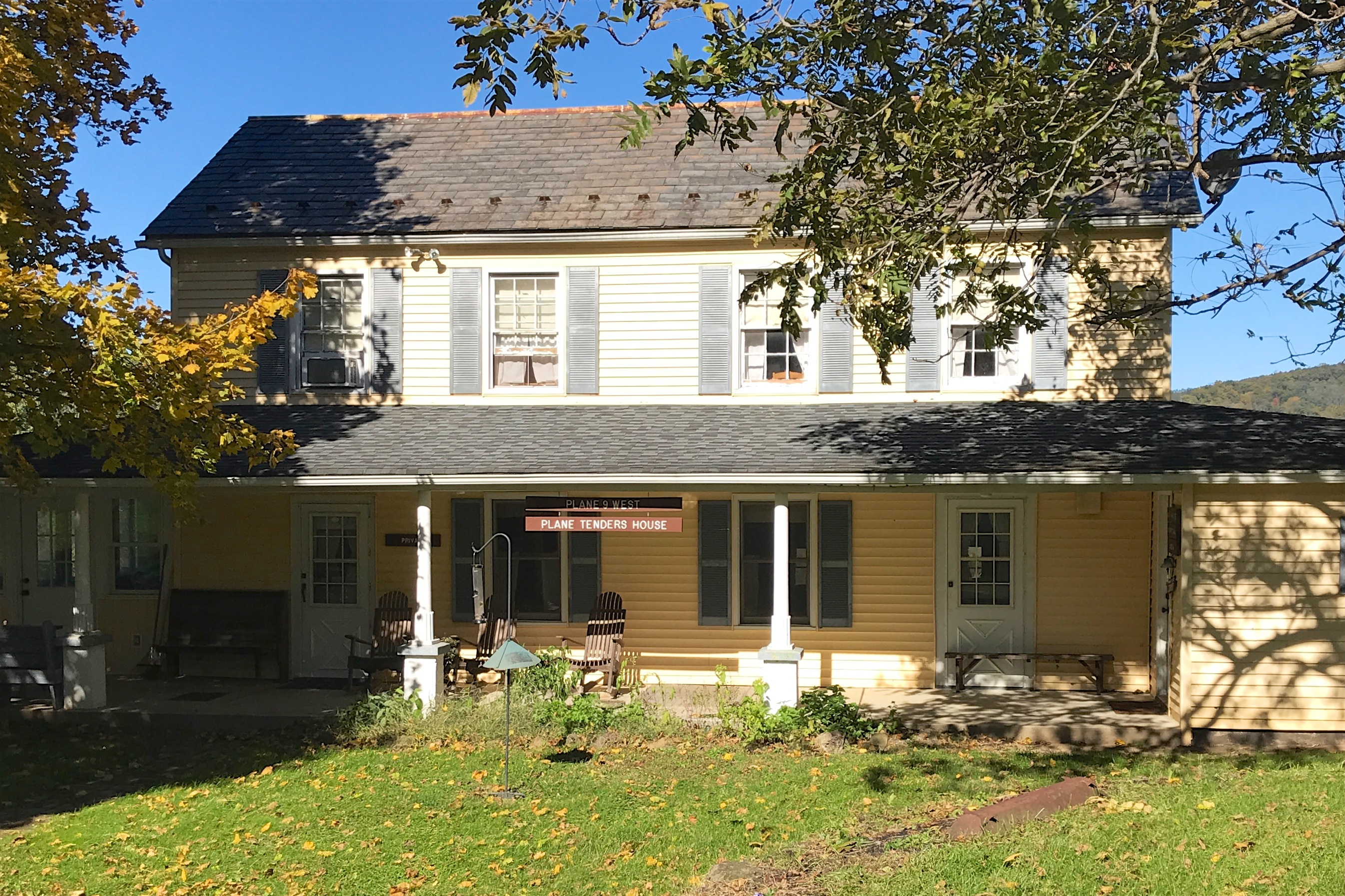 The house of the plane tender for Inclined Plane 9 West of the Morris Canal in Port Warren, New Jersey. Used as the Jim and Mary Lee Morris Canal Museum.